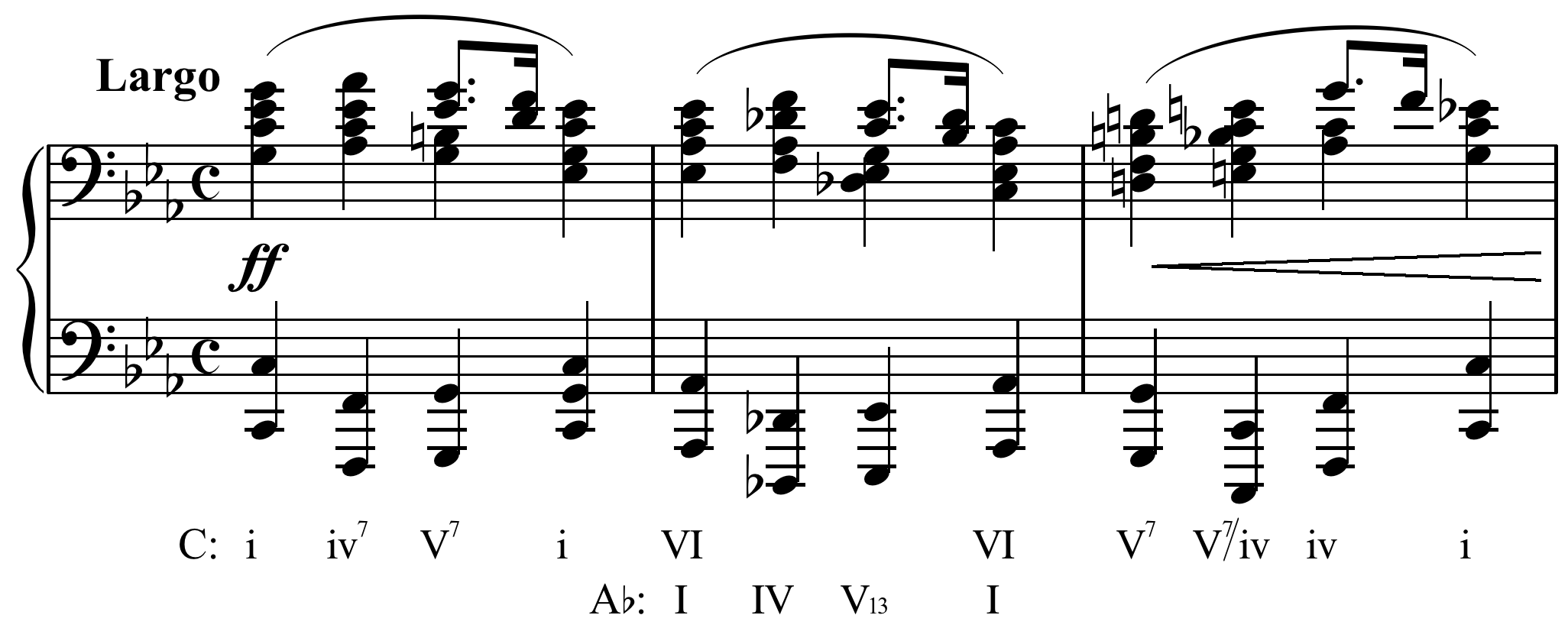 Chopin's Prelude in C minor modulates within the first three measures.